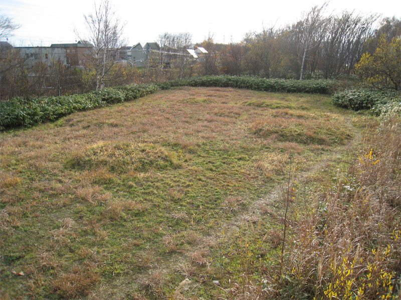 Ebetsu kofun group - old Japanese tumbs in Ebetsu, Hokkaido, Japan